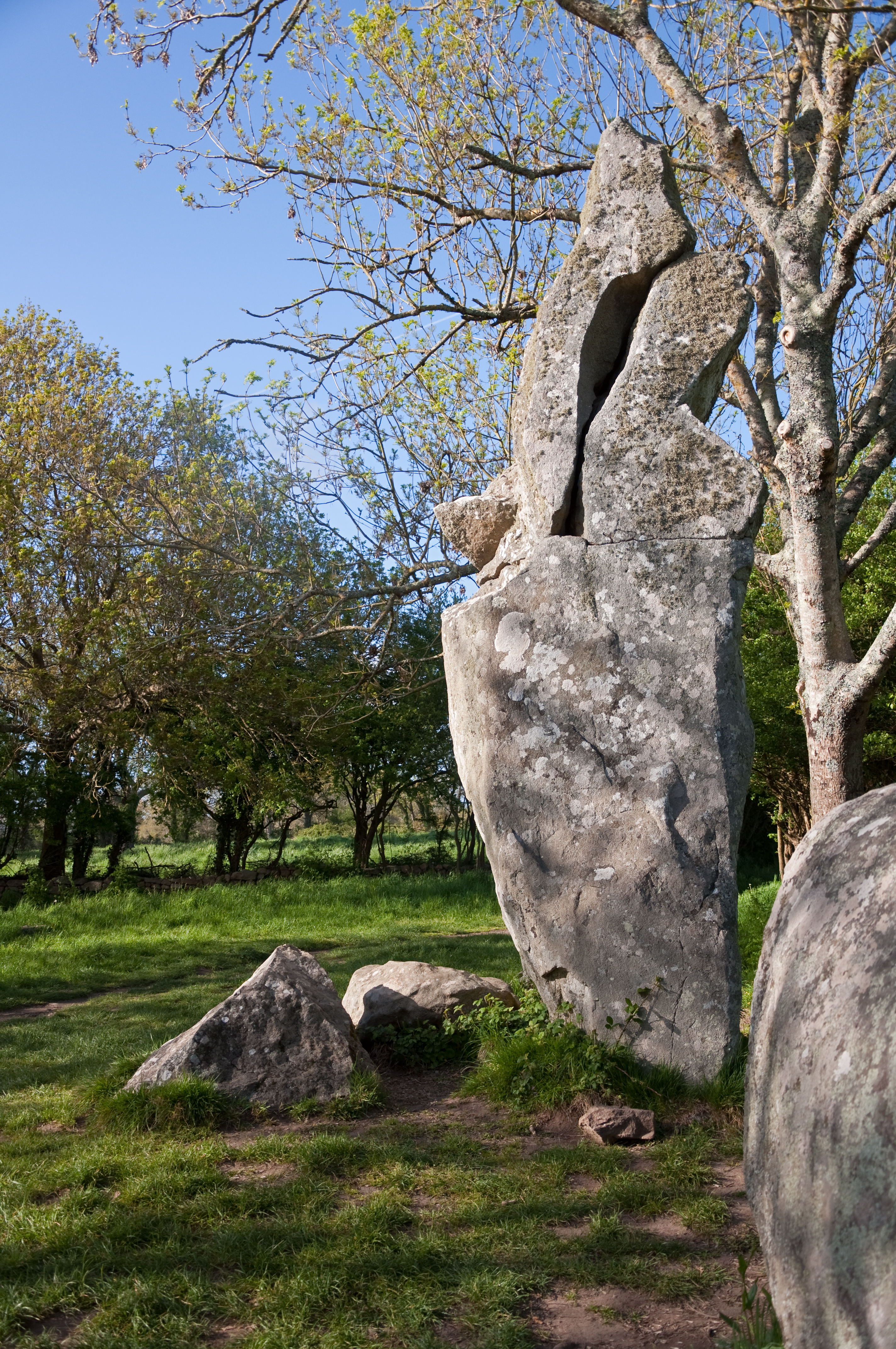 One of the “Kerzerho Giants”, in Erdeven near Carnac (Morbihan, Brittany, France)